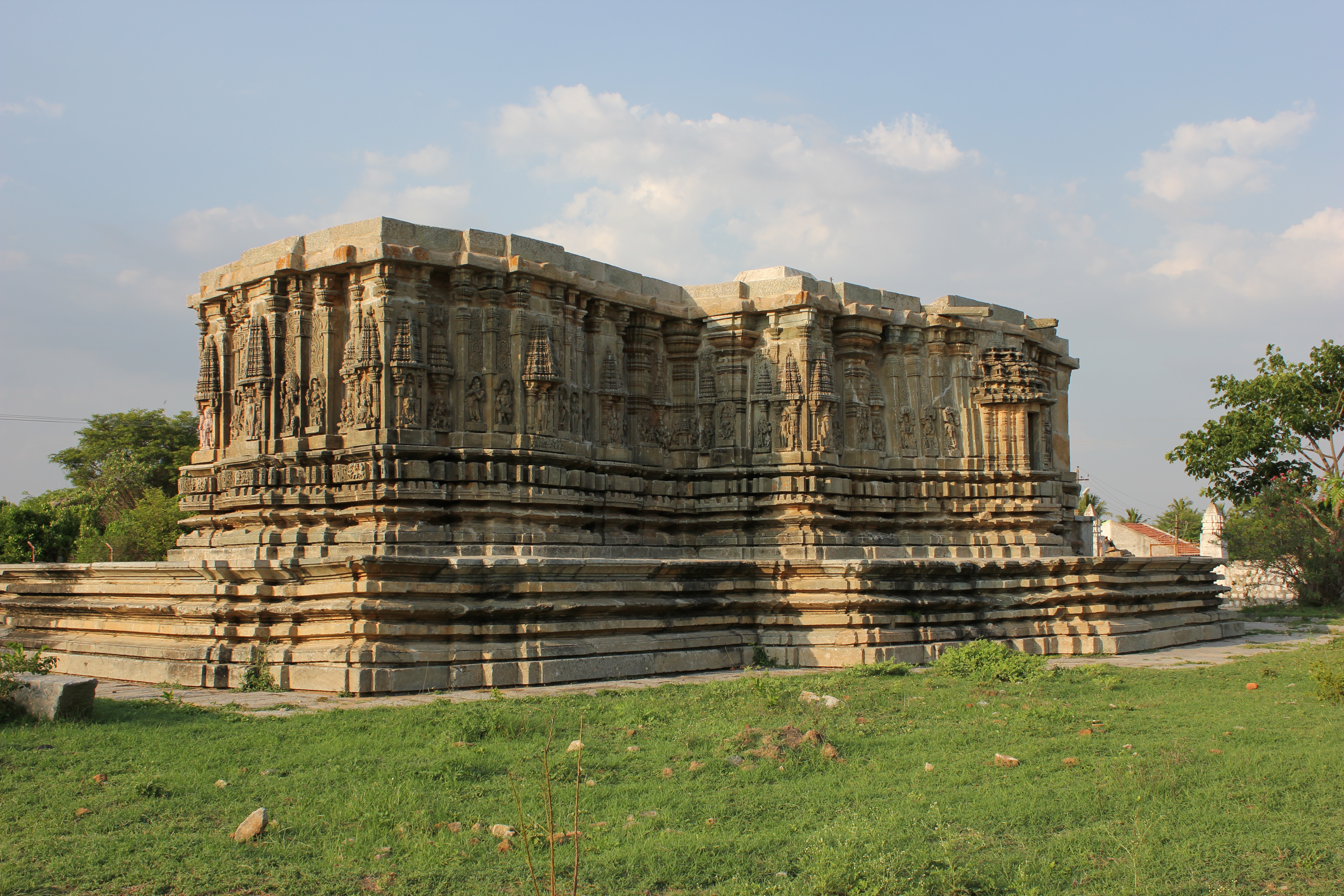 This photograph was taken by me (Dinesh Kannambadi) in the Shantinatha Basadi at Jinanathapura, Hassan district, Karnataka state, India. The Basadi was built around 1200 AD during the rule of the Hoysala Empire King Veera Ballala II.